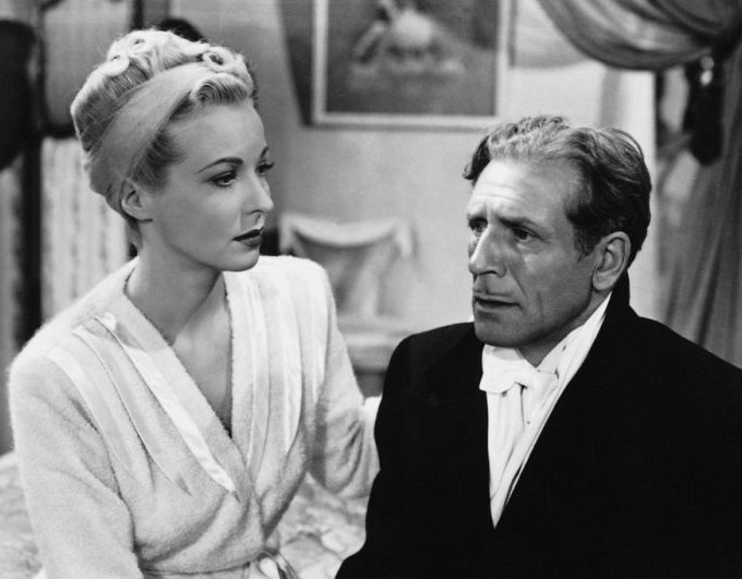 Hillary Brooke & Paul Cavanagh in The Woman in Green - cropped screenshot